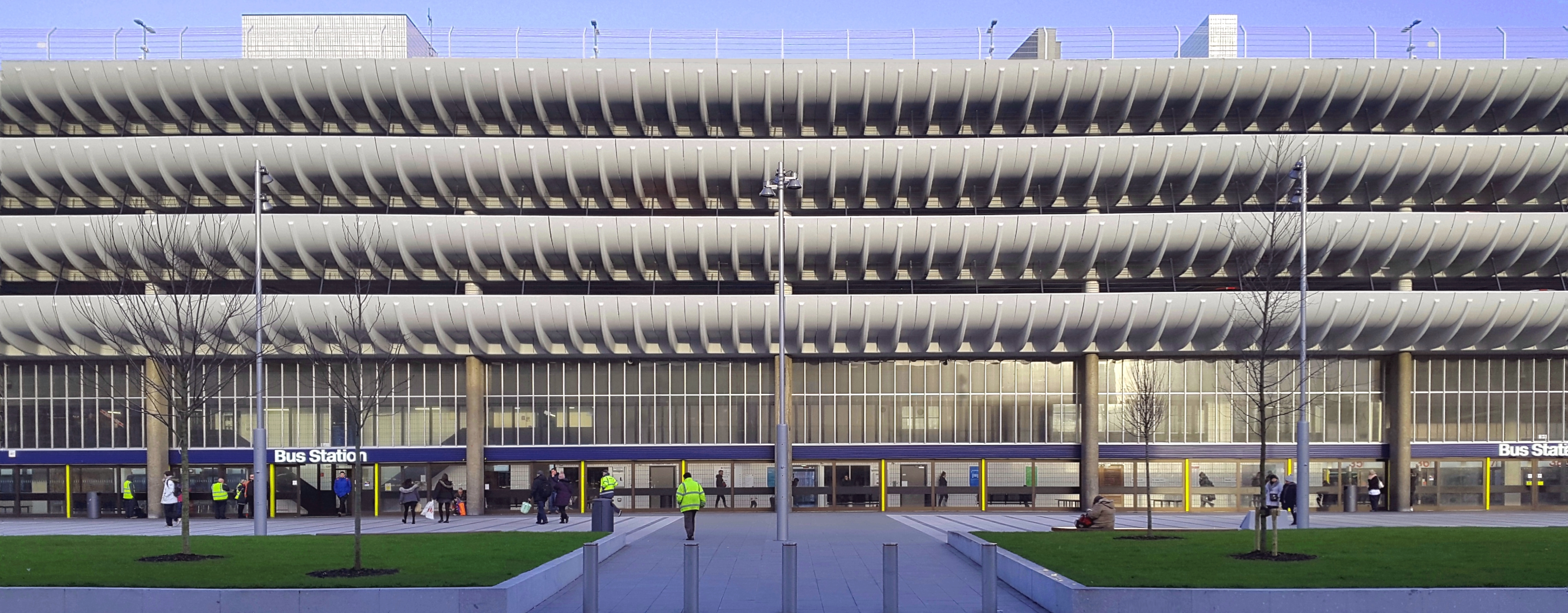 Preston bus station after redevelopment, with the new concourse replacing the western bus bays